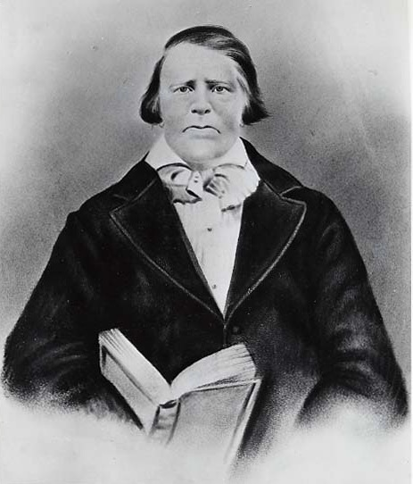 Jacob Fahlström. Image titled "Jacob Fahlstrom (Oza-windib or "Yellow Hair")."